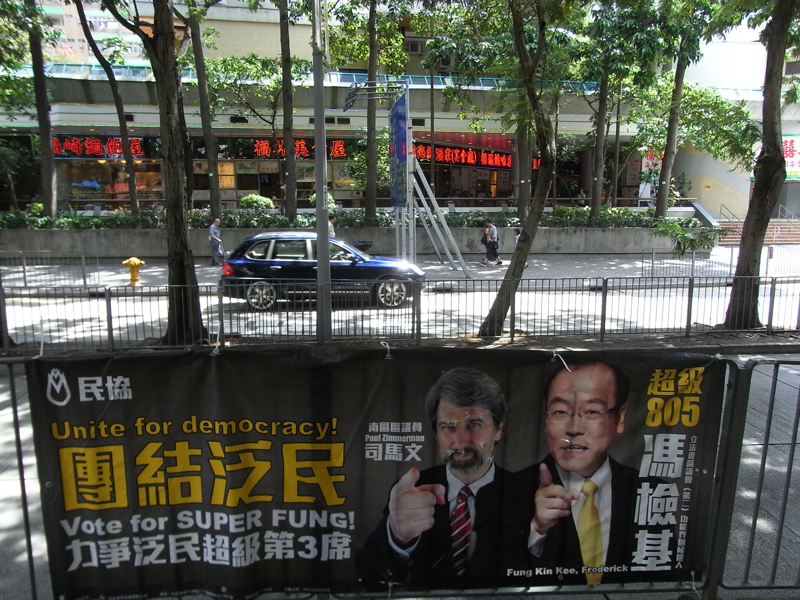 Chai Wan Road, Chai Wan, Hong Kong